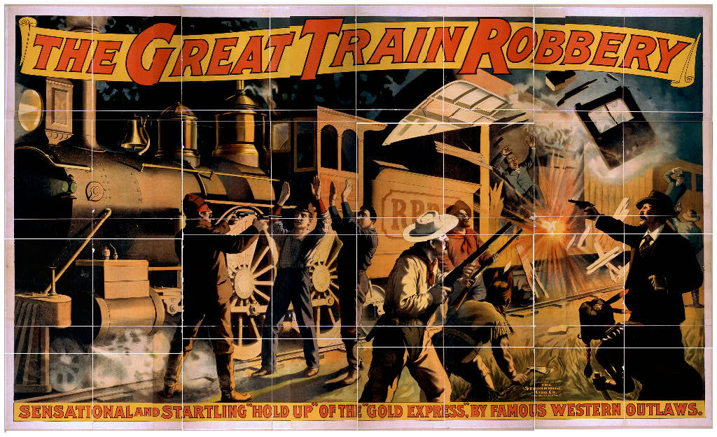 Poster of The Great Train Robbery.